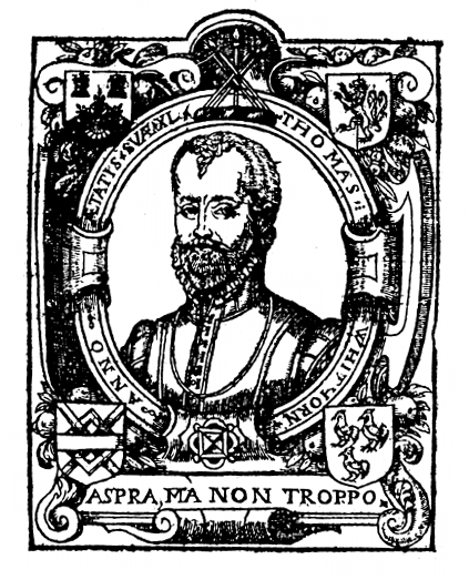 The English composer Thomas Whythorne (1528–1595) frontispiece to his Duos or Songs for Two Voices (published 1590). A painted portrait of the composer suggests this is a good likeness of the composer.